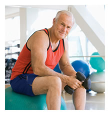 Elderly man with a dumbell sitting on an exercise ball